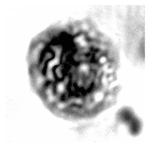 An oocyst of Paleohaemoproteus burmacis developing in the body cavity of a Protoculicoides species midge. Sporozoites are developing inside the oocyst.